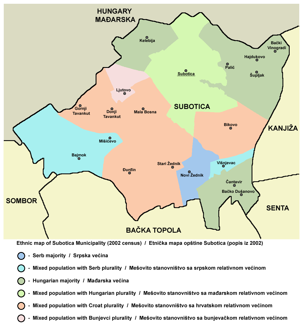 ethnic map of Subotica municipality.